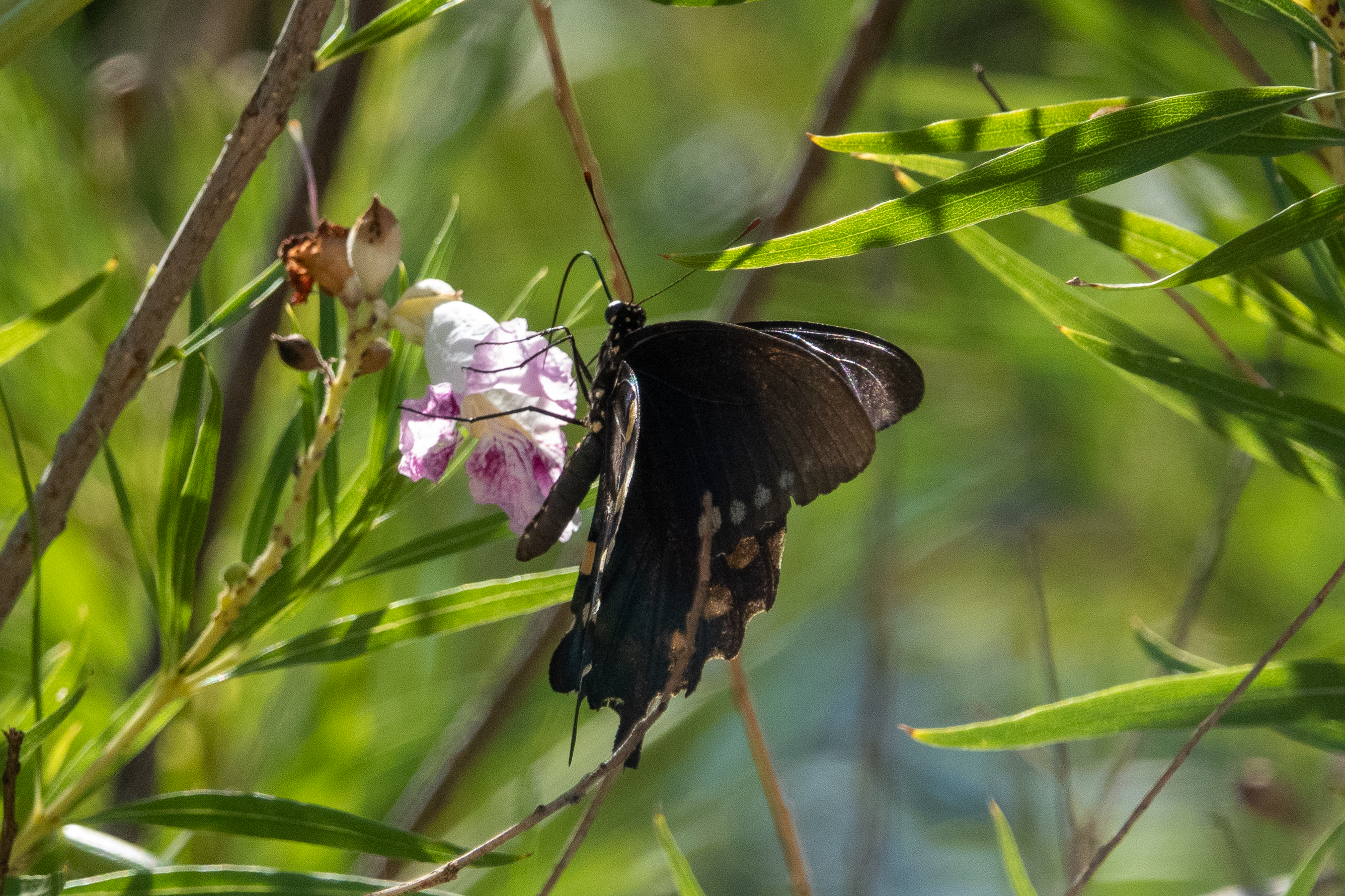 Pipevine Swallowtail | San Pedro House & River | Sierra Vista | AZ|2019-07-25|10-30-31